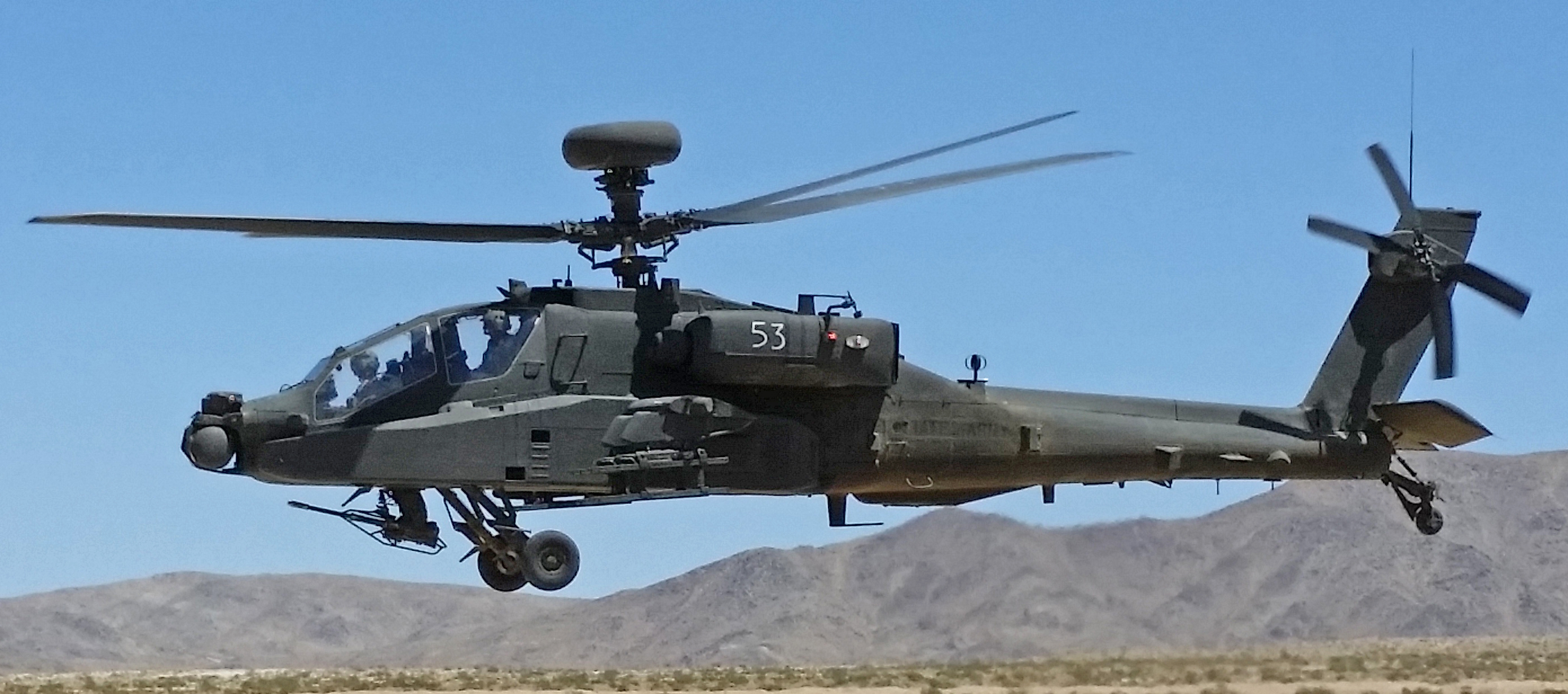 An AH-64E Apache from 1st Battalion, 25th Aviation Regiment, 25th Infantry Division, takes off from its landing pad after arming and refueling during the unit's rotation at the National Training Center on Fort Irwin, Calif., May 21.